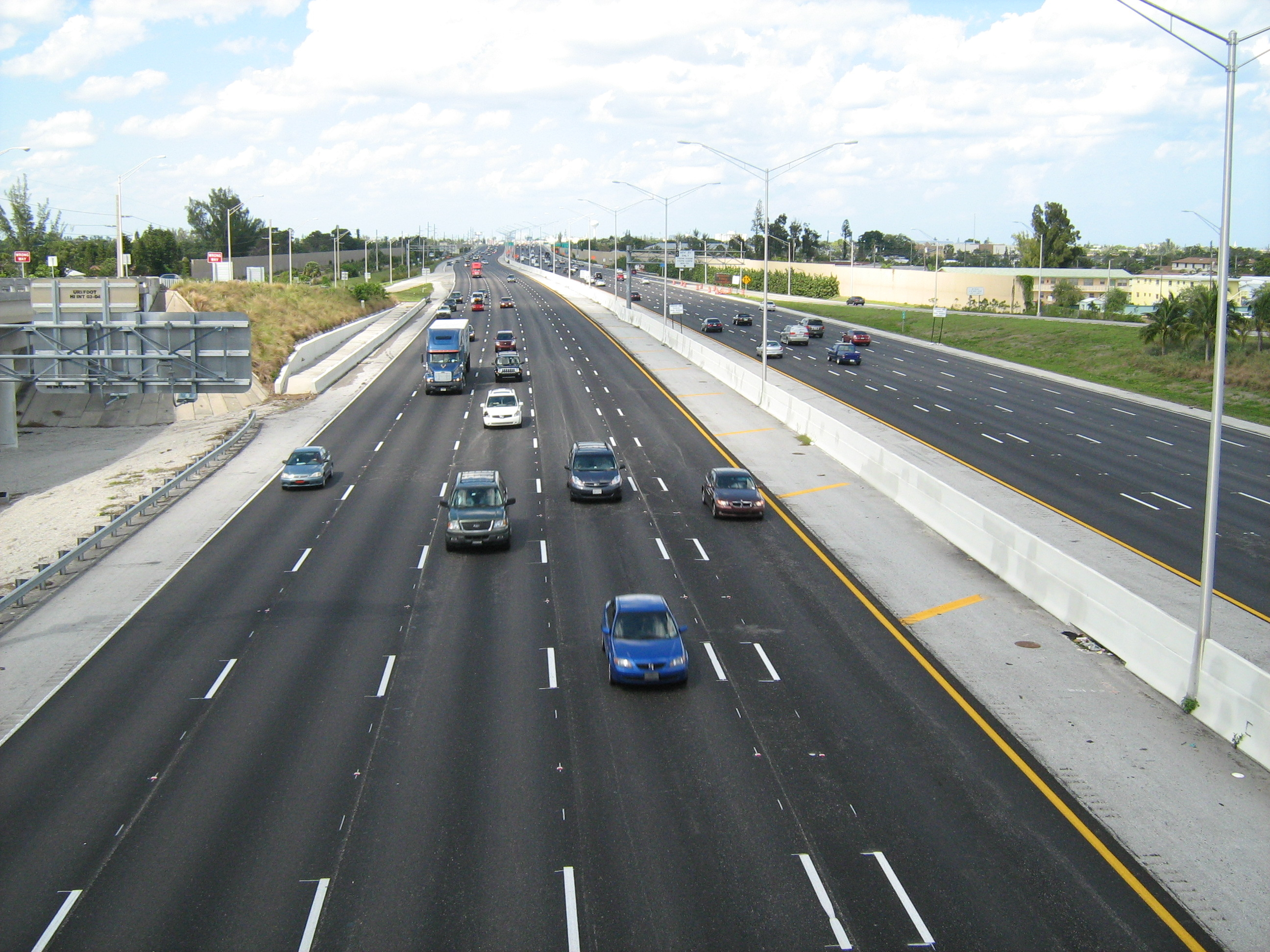 South bound lanes of Interstate highway I-95 in Florida. View north from the Lantana Road (CR 812) overpass (at Exit 61).